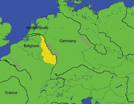 The area between the Rhine River and the border of Germany; a proposed definition of Rhineland.